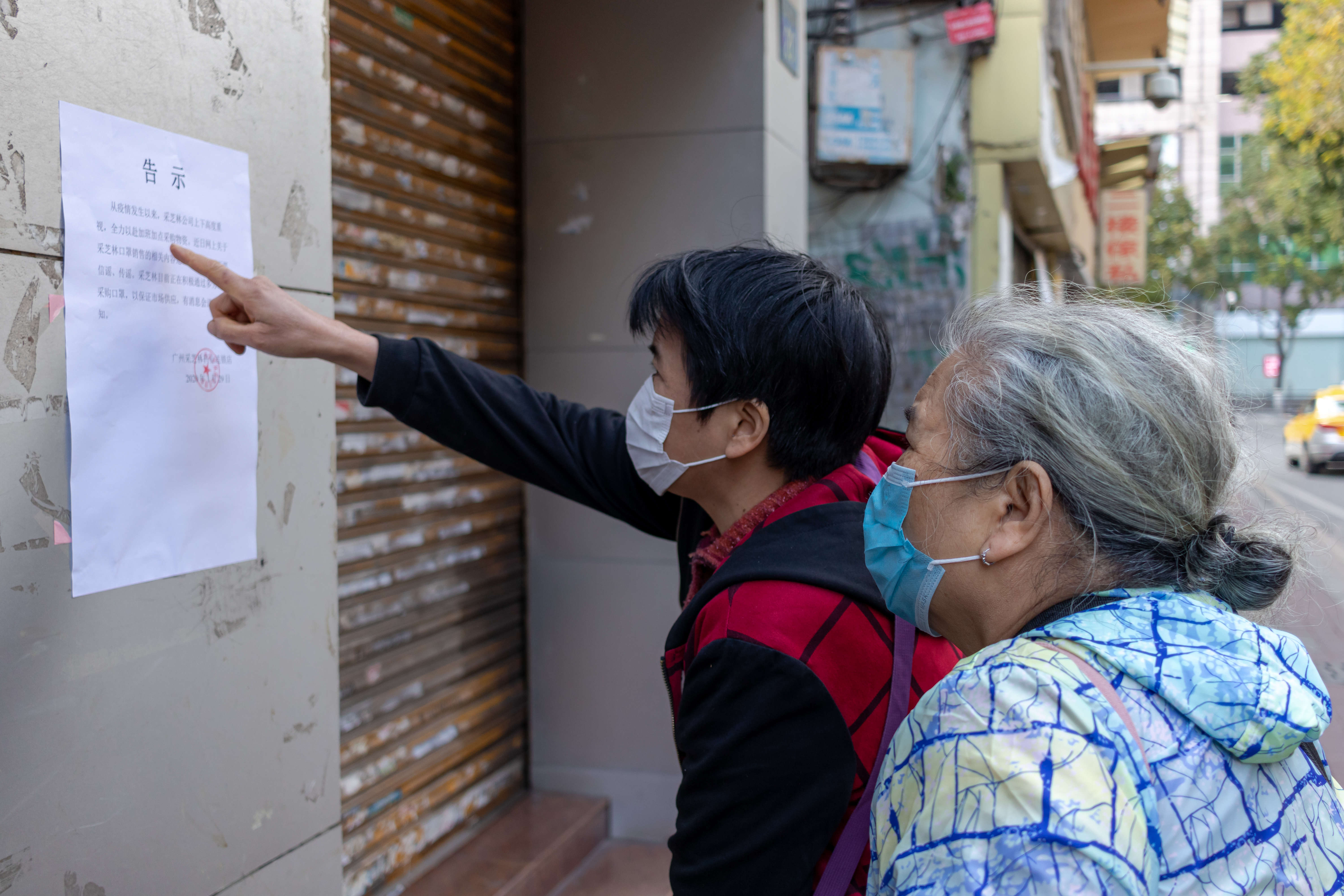 street photo in Guangzhou